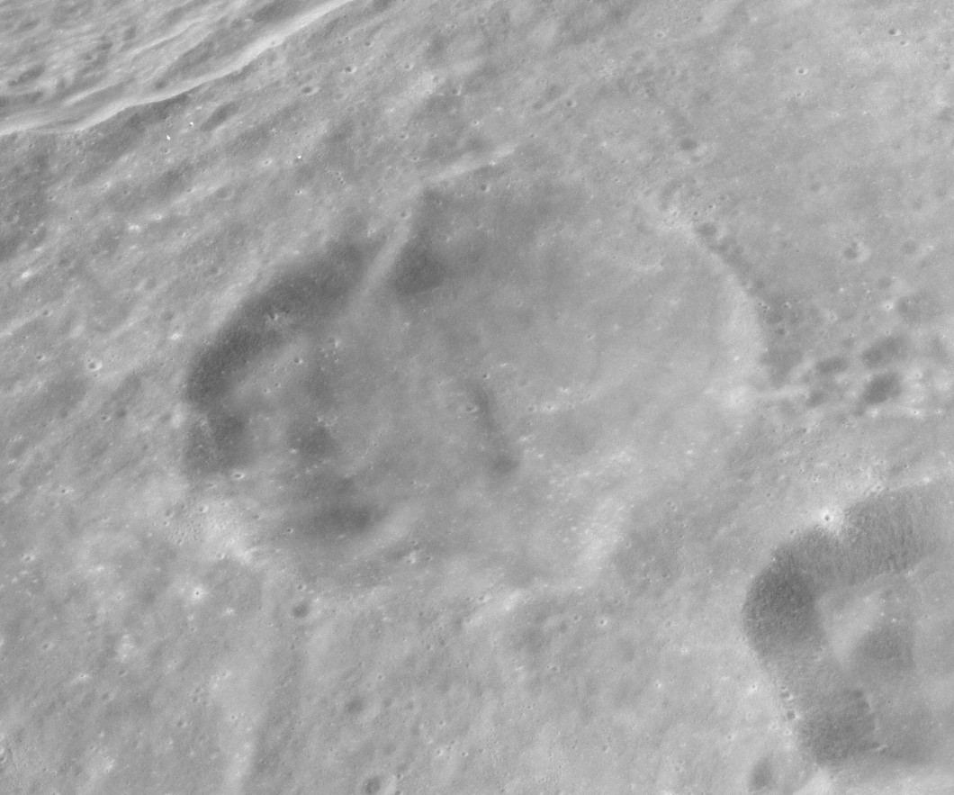 Oblique view of Bingham, facing north, on the far side of the moon. The rim of Lobachevskiy crater is in upper left. Sun elevation 43 deg., spacecraft altitude 115 km.